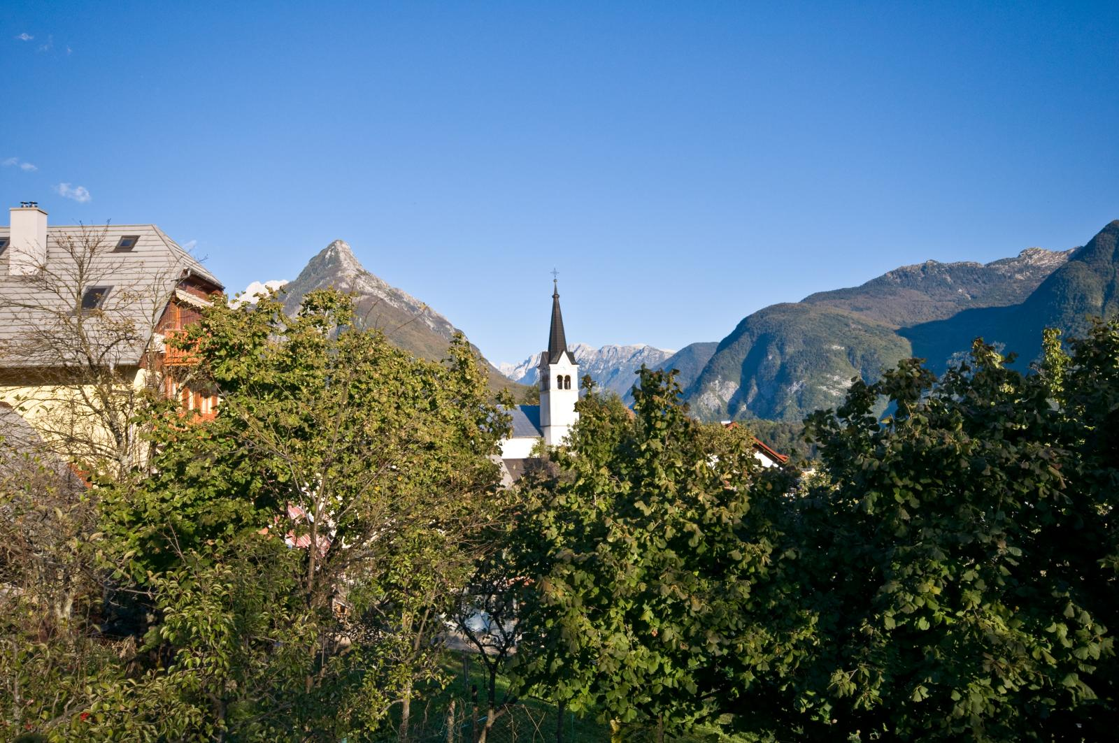 Town of Bovec